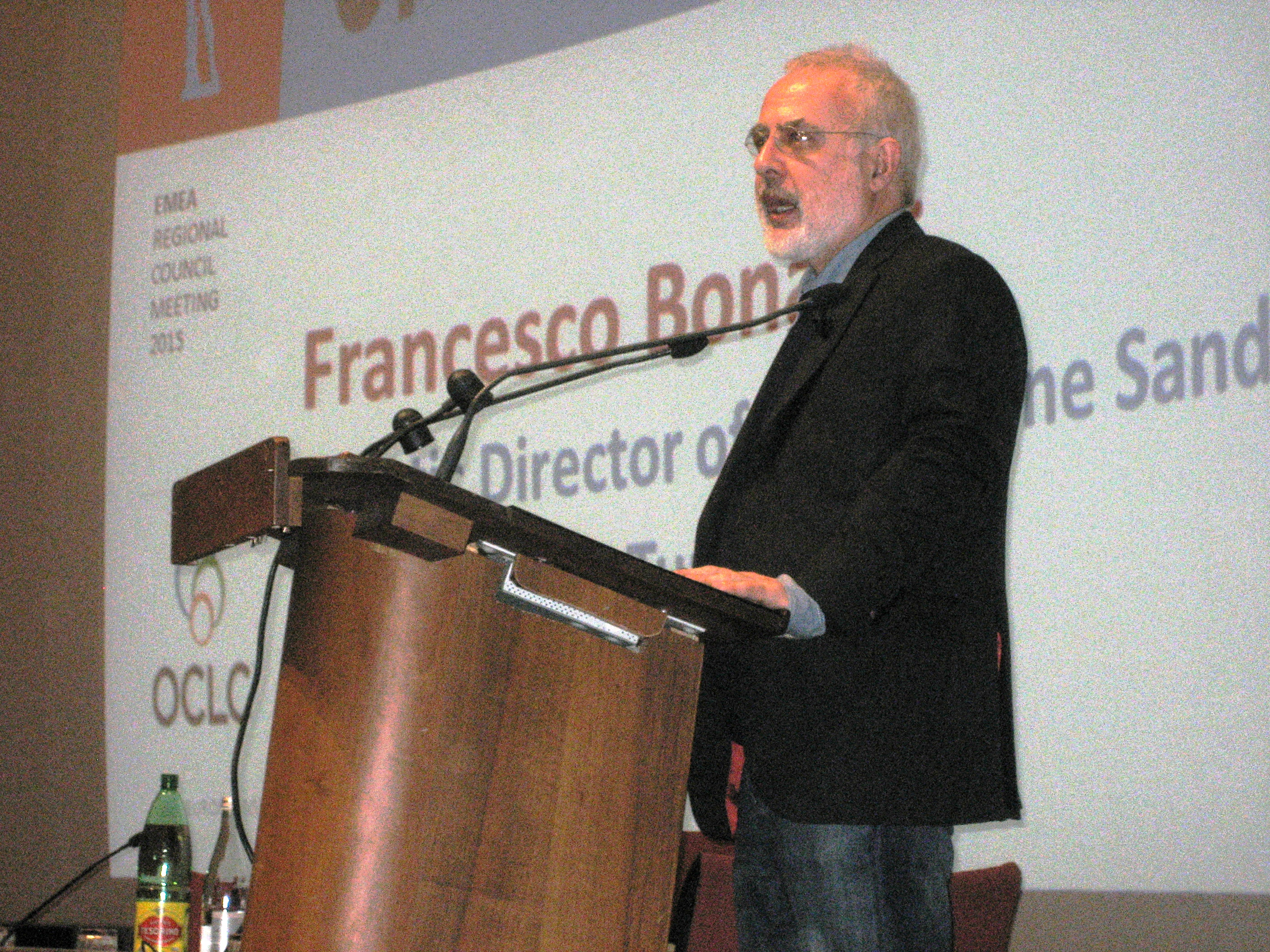 Francesco Bonami, art critic and curator, speaking at OCLC EMEA Regional Council 2015 in Florence, Italy